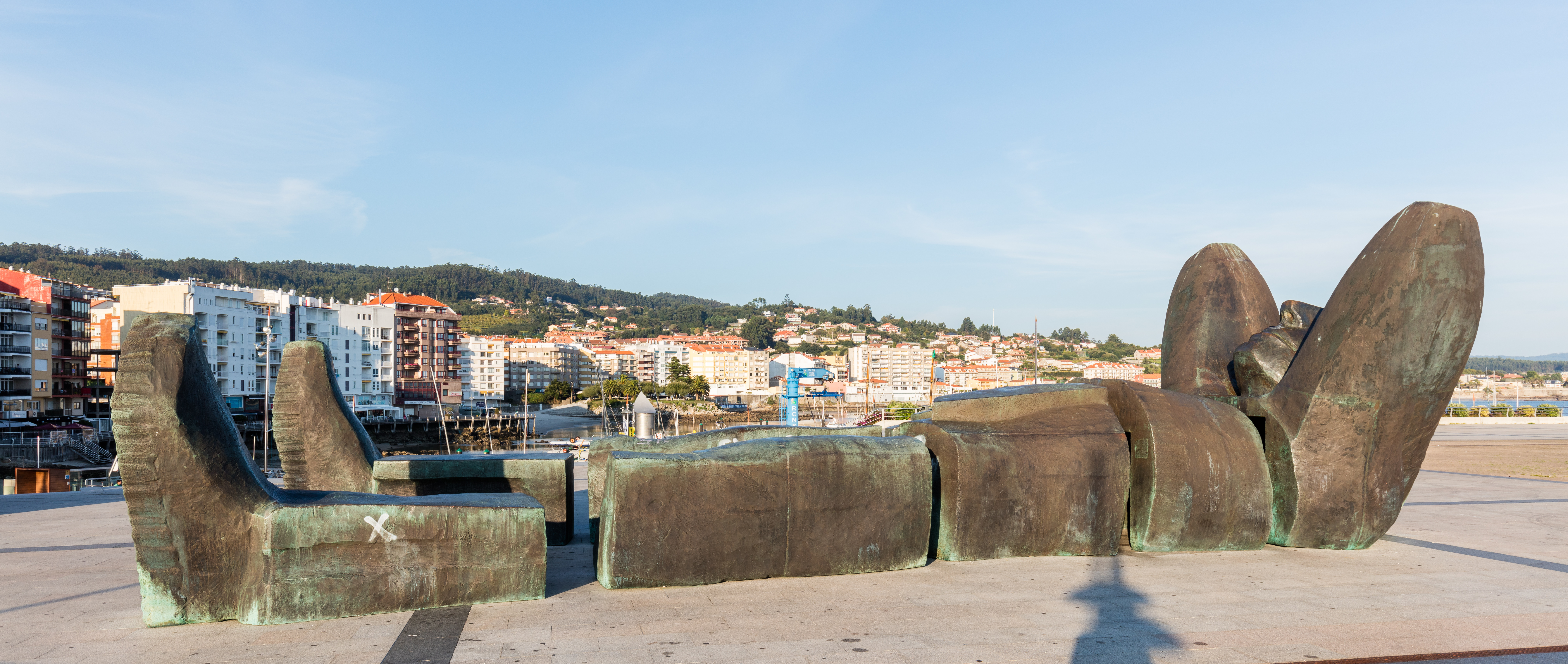 Sculpture in Sangenjo, Pontevedra, Spain